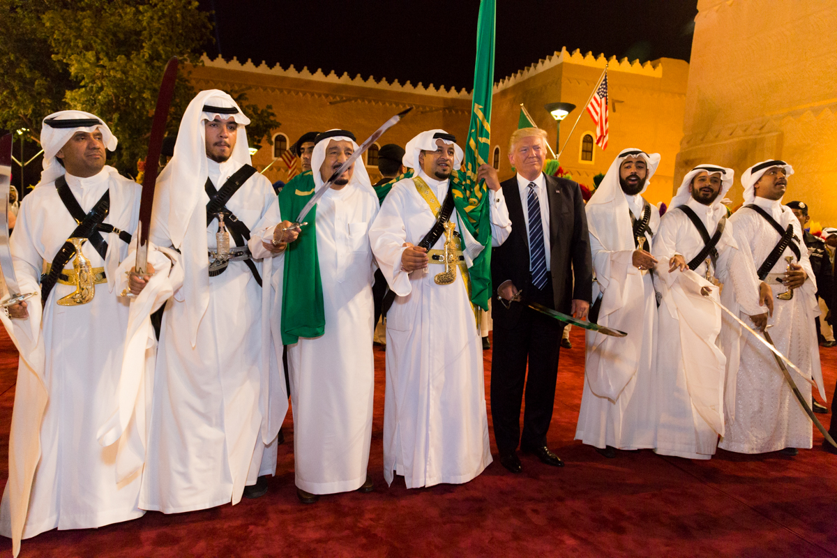 President Donald Trump poses for photos with ceremonial swordsmen on his arrival to Murabba Palace, as the guest of King Salman bin Abdulaziz Al Saud of Saudi Arabia, Saturday evening, May 20, 2017, in Riyadh, Saudi Arabia. (Official White House Photo by Shealah Craighead)